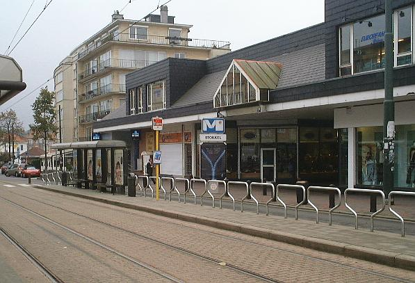 Entrance of Stockel / Stokkel station, Brussels metro